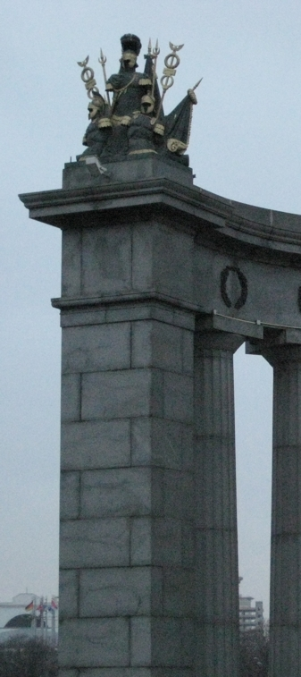 A trophy at the Borodinskiy Bridge in Moscow, build in 1912 as a memorial to the victory over Napoleon (1812) in neoclassical style